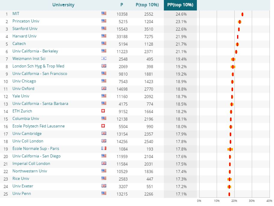 leiden ranking